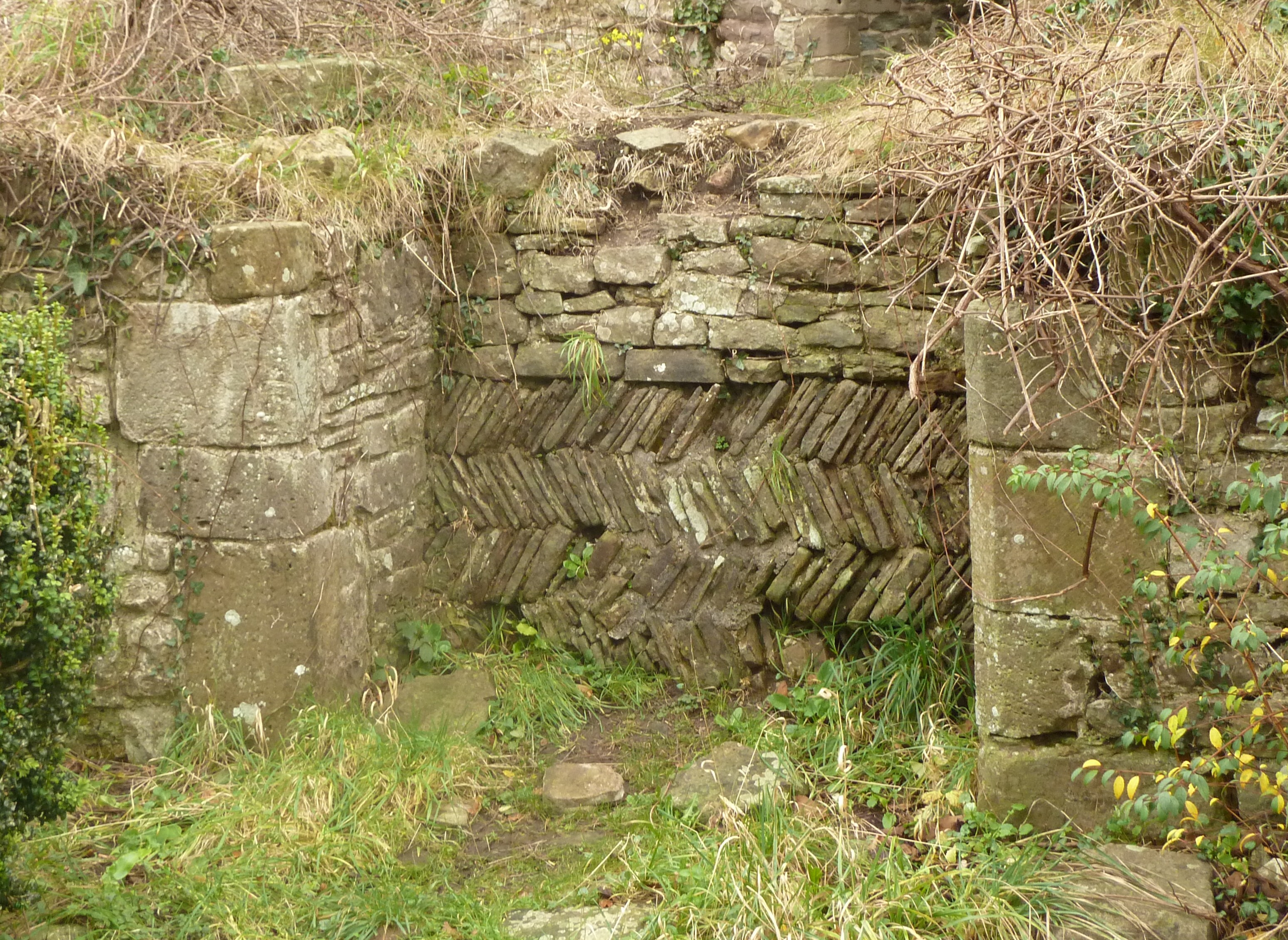 Old stone fireplace, Usk castle. This herringbone stonework is typical of the fireback in a fireplace hearth, of which Usk castle has several examples. Flat stone slabs would be damaged by surface spalling from the heat. Mortared stonework would be corroded by soot & flue tar. A common solution was densely-worked herringbone stonework, with minimal mortar.